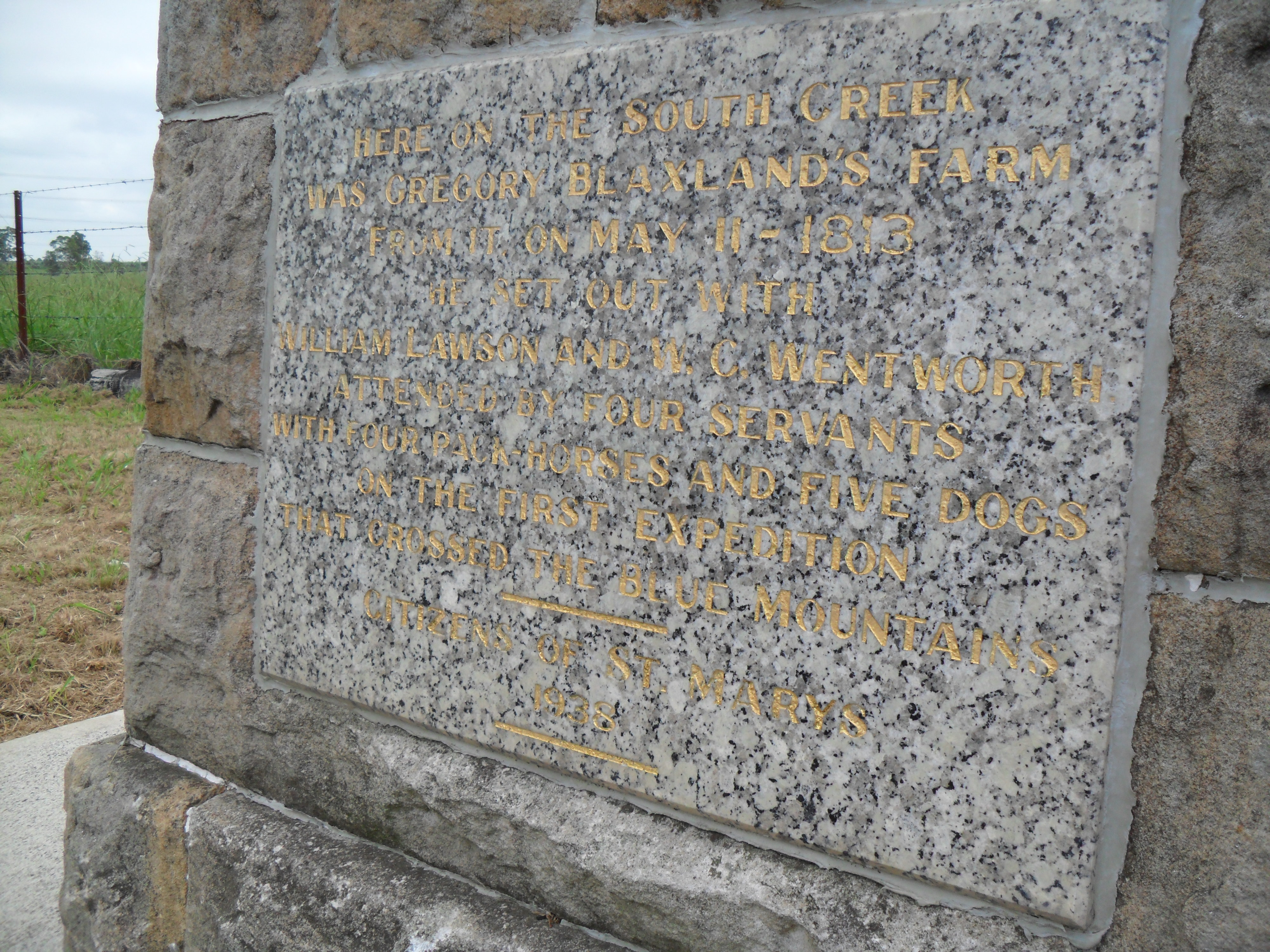 Blaxland, Wentworth and Lawson memorial, Luddenham Rd, Orchard Hills, Sydney